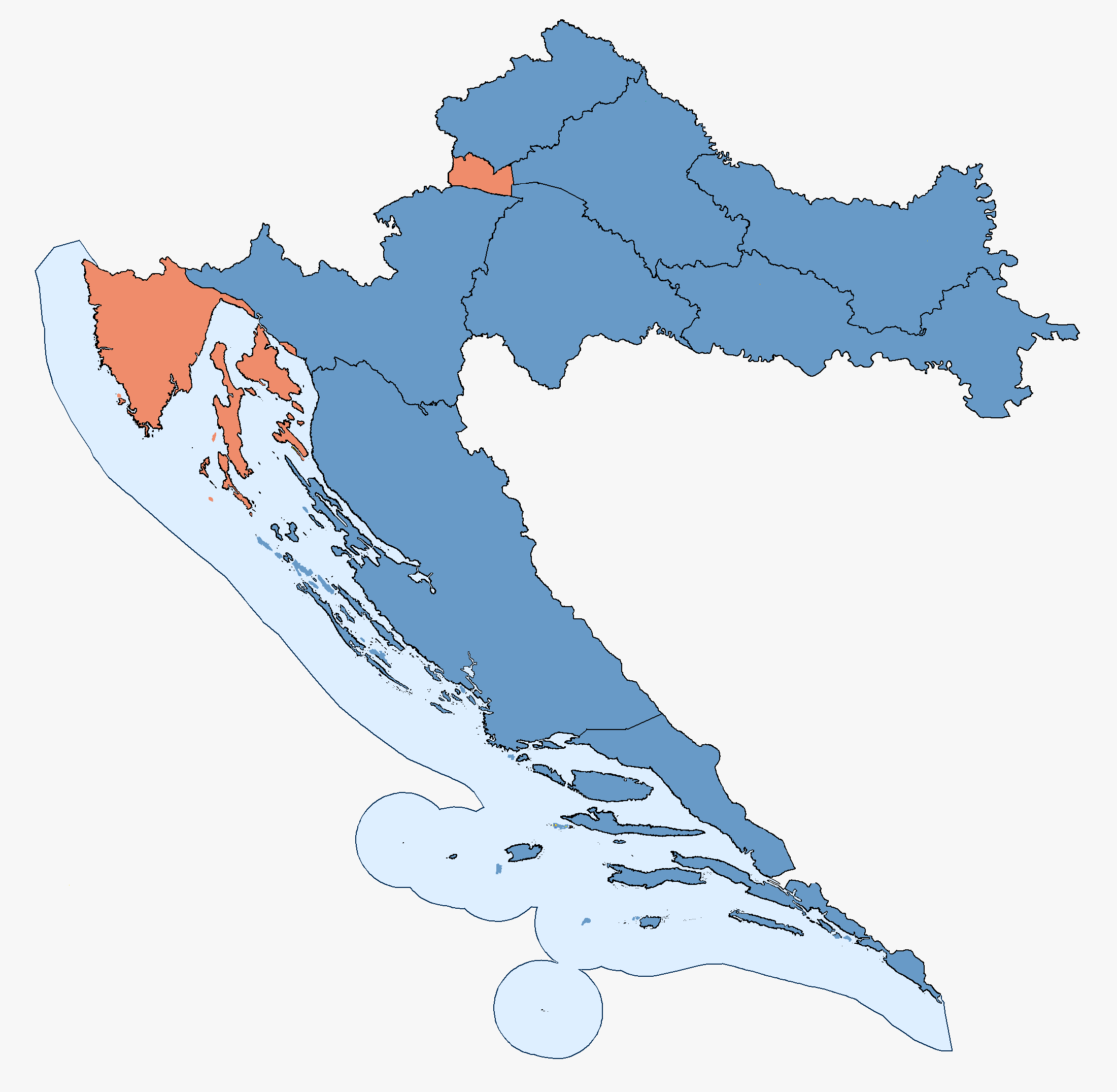 The results of the Croatian parliamentary election held on 23 November 2003, by electoral districts.